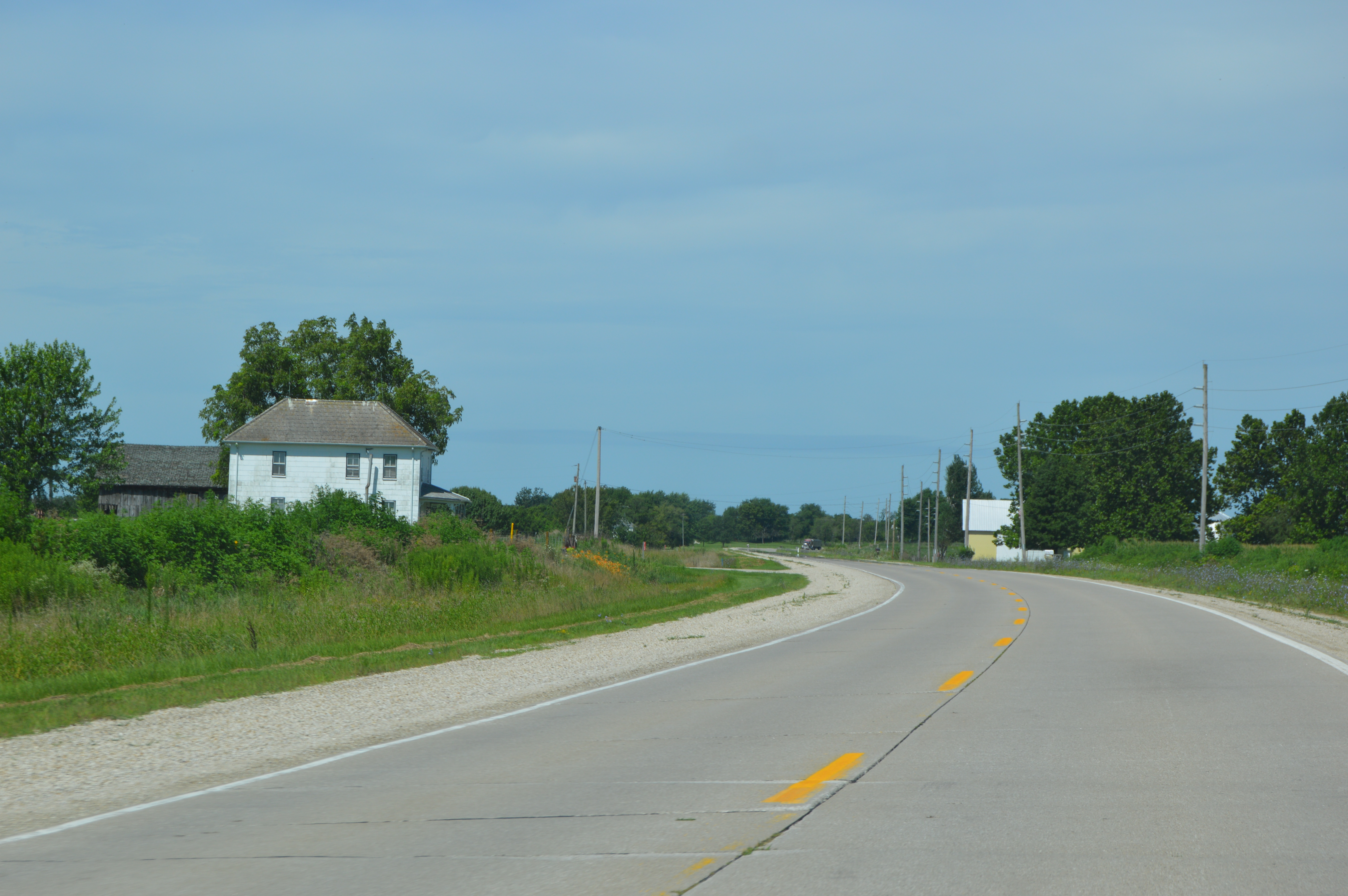 Looking westward along Iowa Highway 2 east of Donnellson in Charleston Township, Lee County, Iowa, United States.